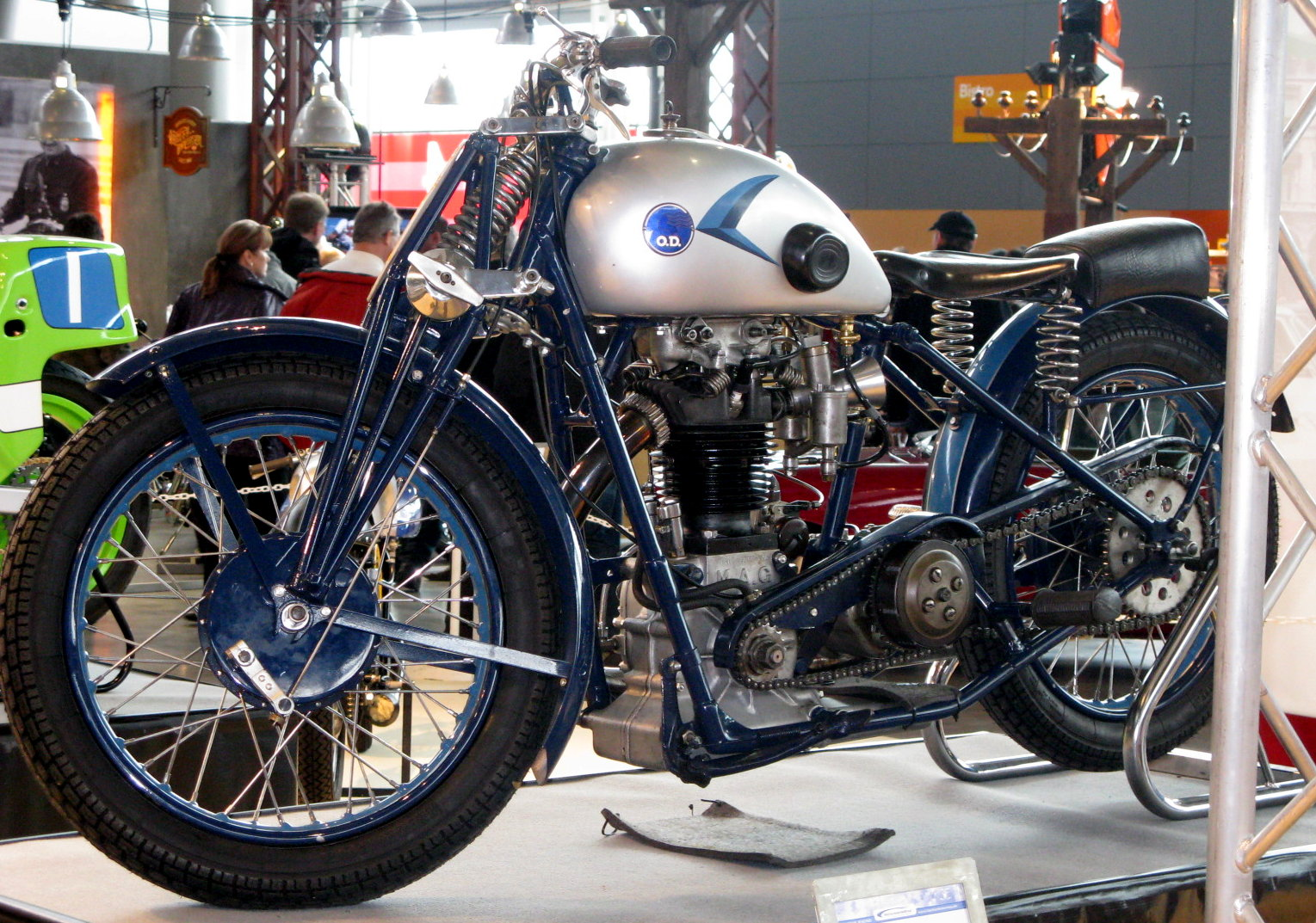 1931 OD motorcycle